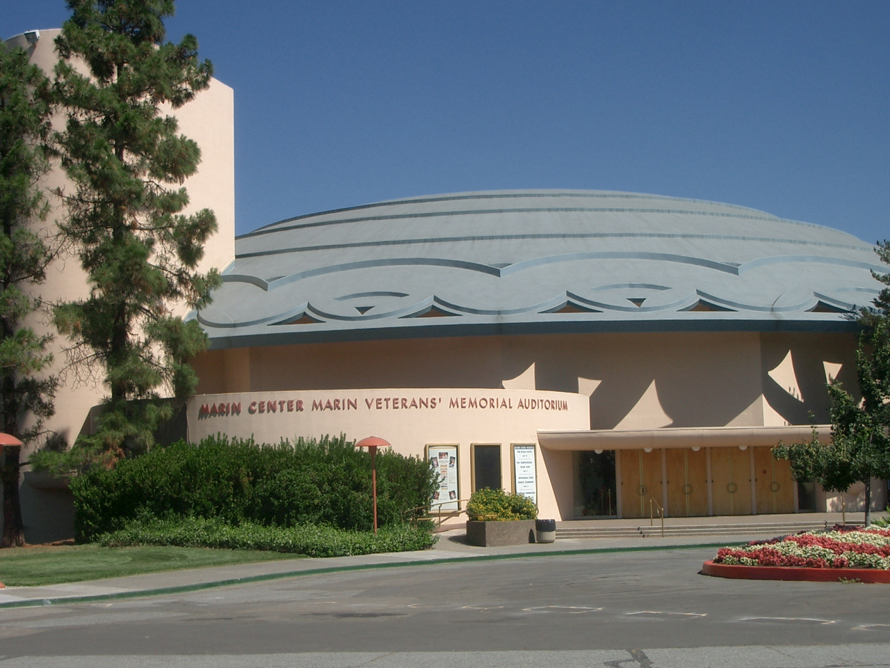 Marin County Civic Center designed by Frank Lloyd Wright, Veterans Memorial Auditorium